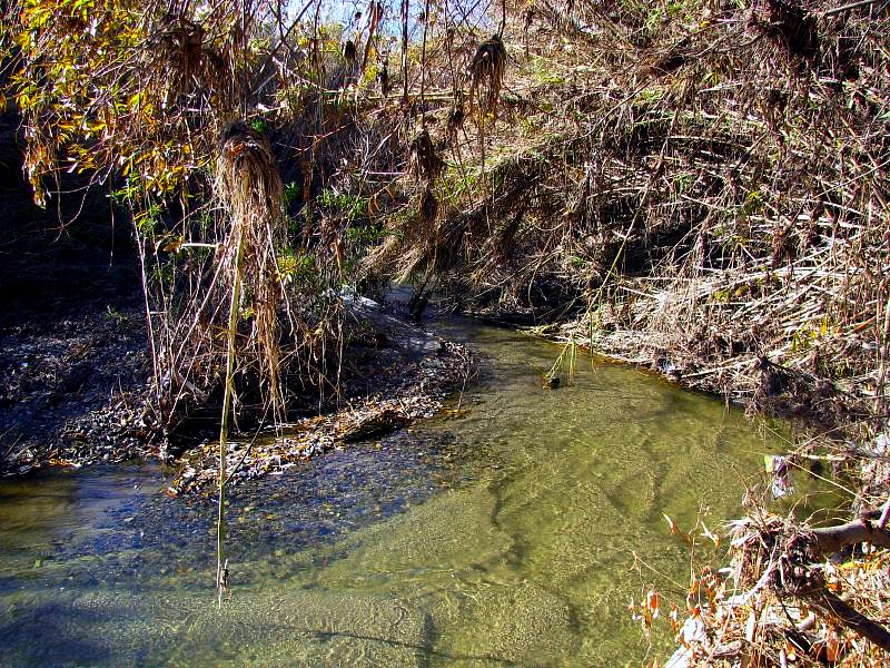 Headwaters of Aliso Creek, Orange County, CA. Flickr uploader's description: "Bend".